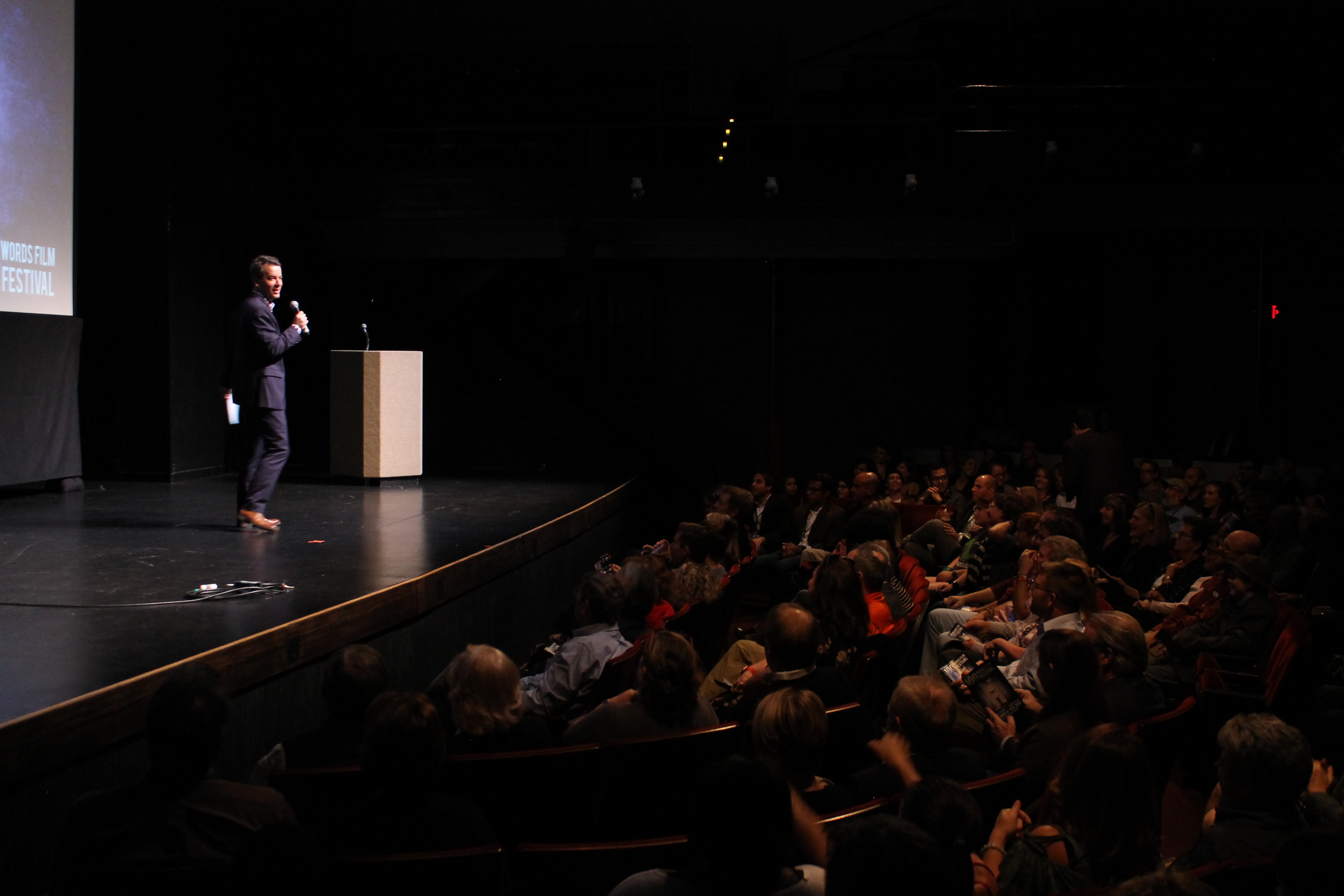 Scott Galloway addresses the audience at the McGlohon Theatre for the 3rd annual 100 Words Film Festival.